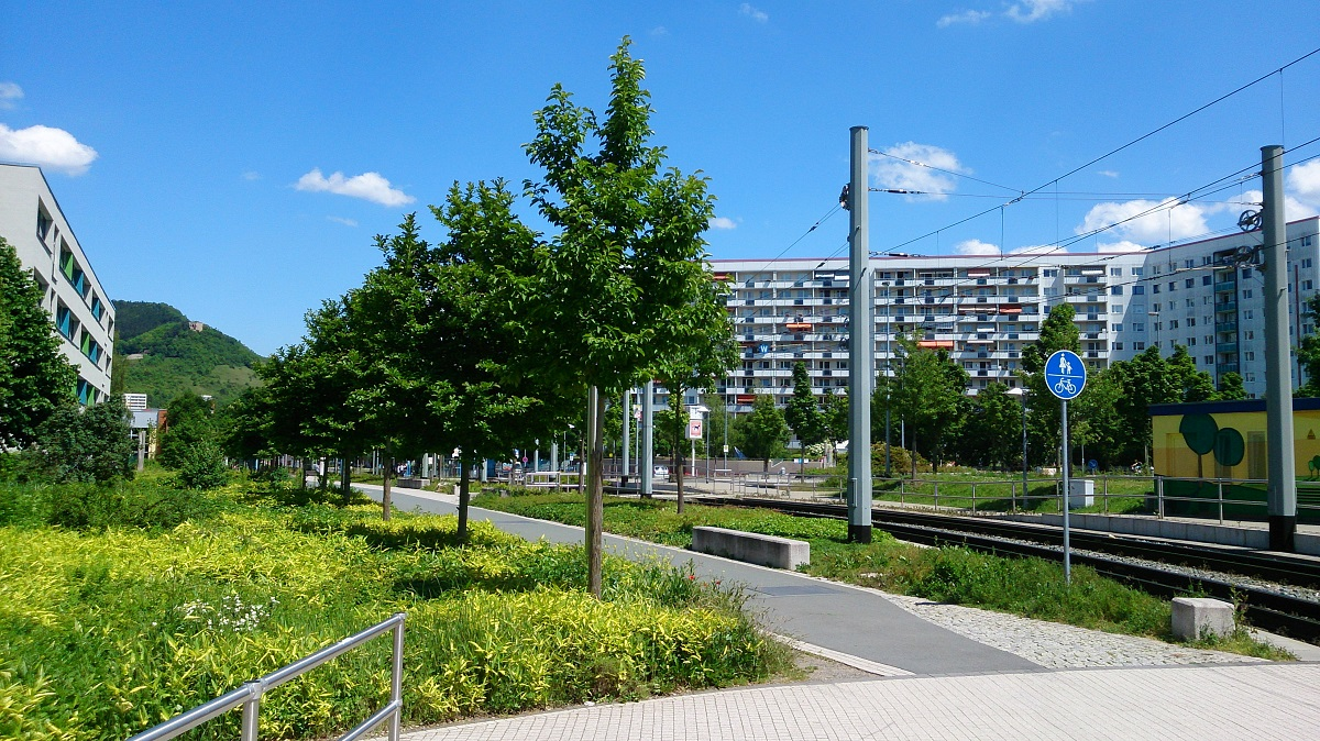 Der Jenaer Stadtteil Lobeda-West